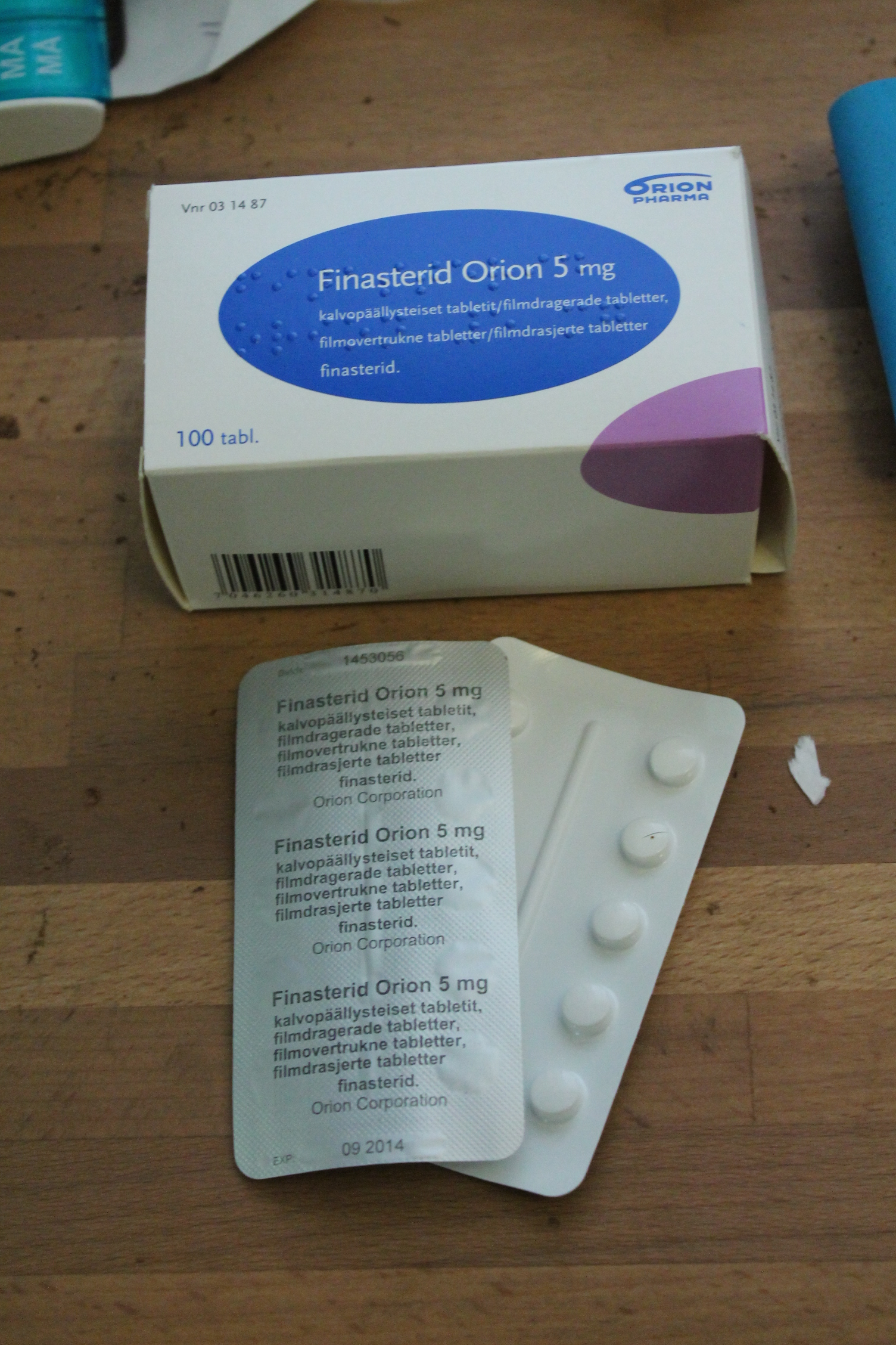 Finasteride 5mg